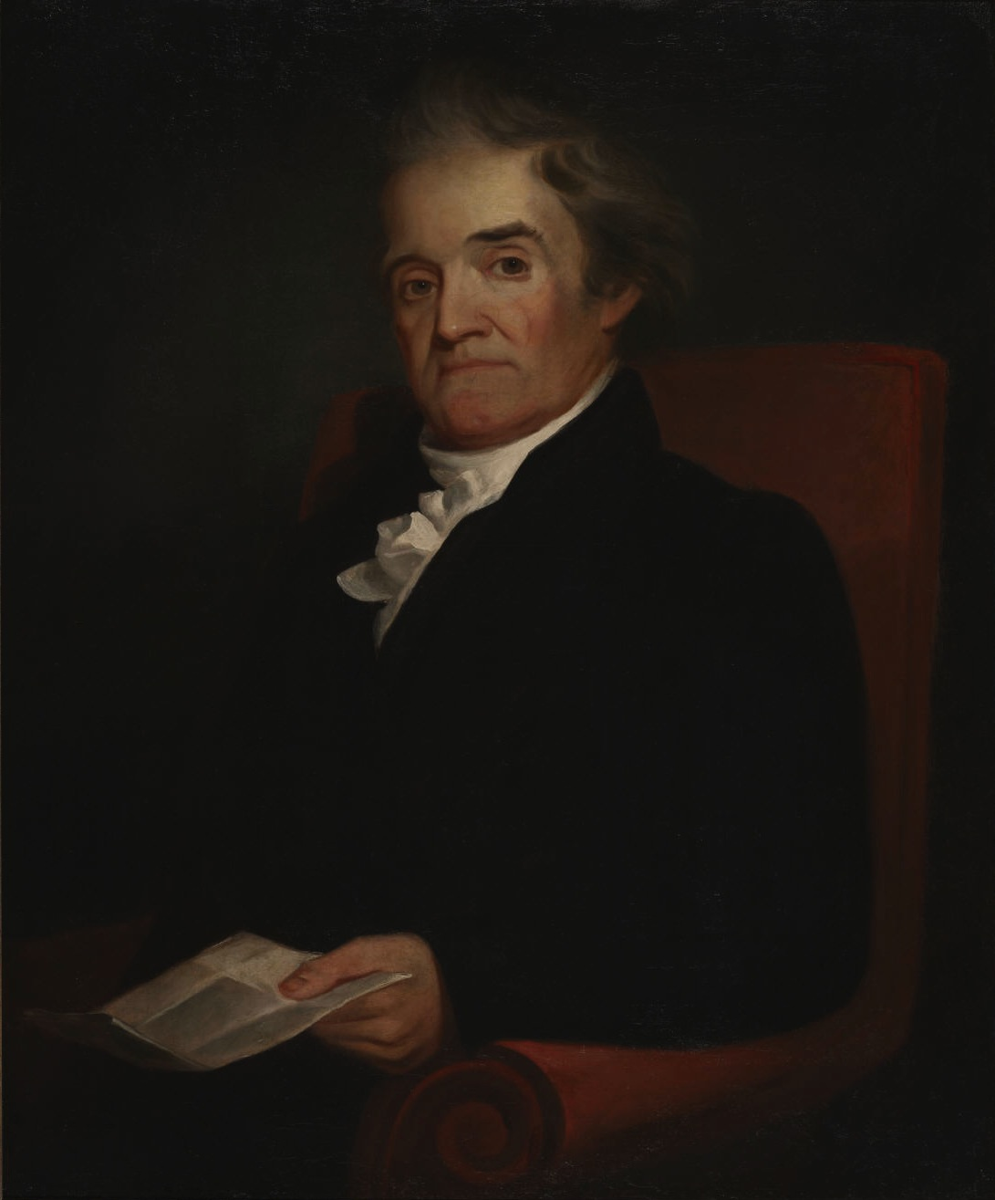 "Noah Webster," painted by Samuel Finley Breese Morse, undated, oil on canvas. 84.7 cm x 72.7 cm. Image courtesy of the Beinecke Rare Book & Manuscript Library, Yale University.